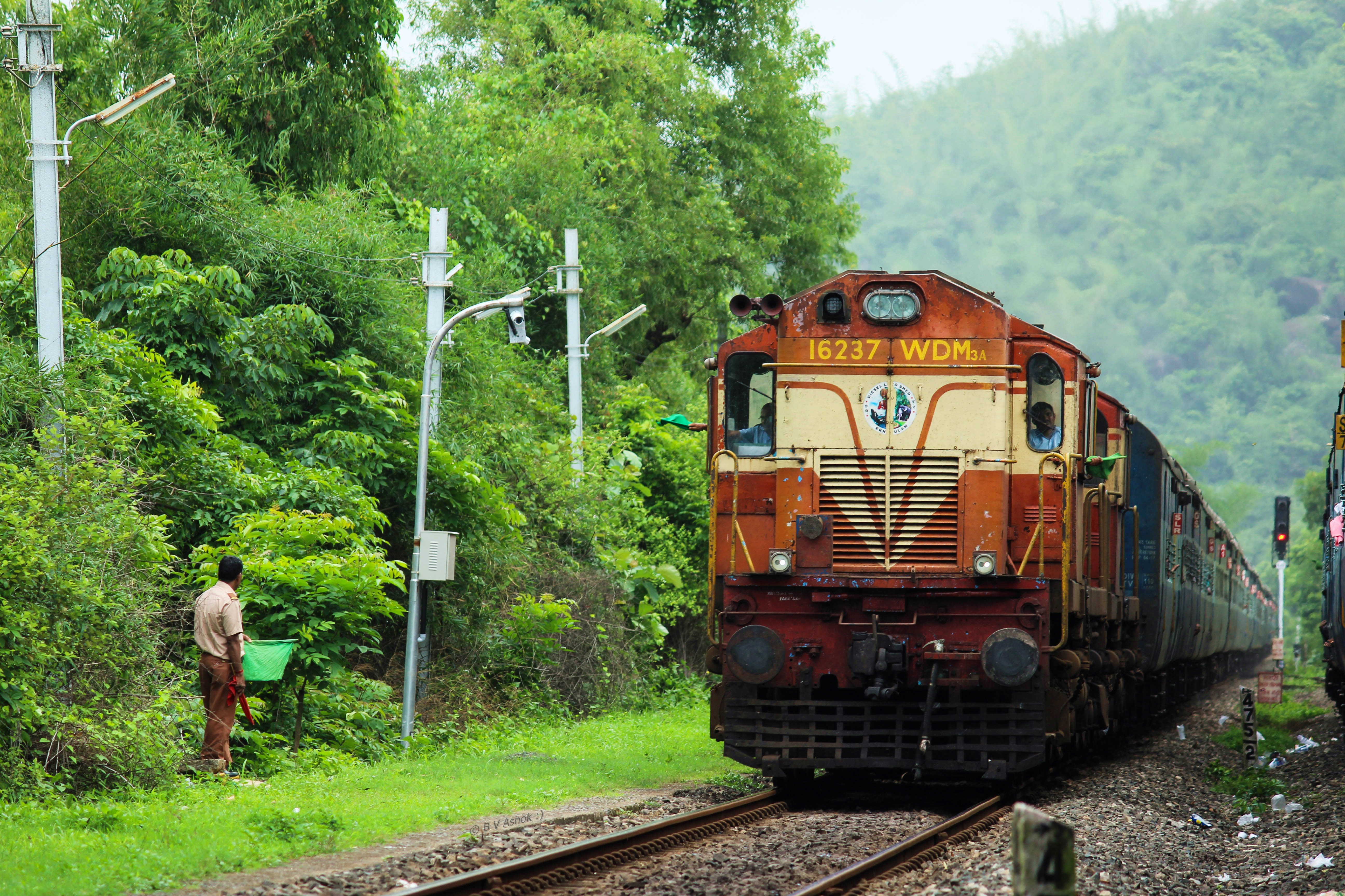 ERS twins led by WDM-3A 16237 charging on mainline of Canacona with 16333 Veraval - Thiruvananthapuram Express...